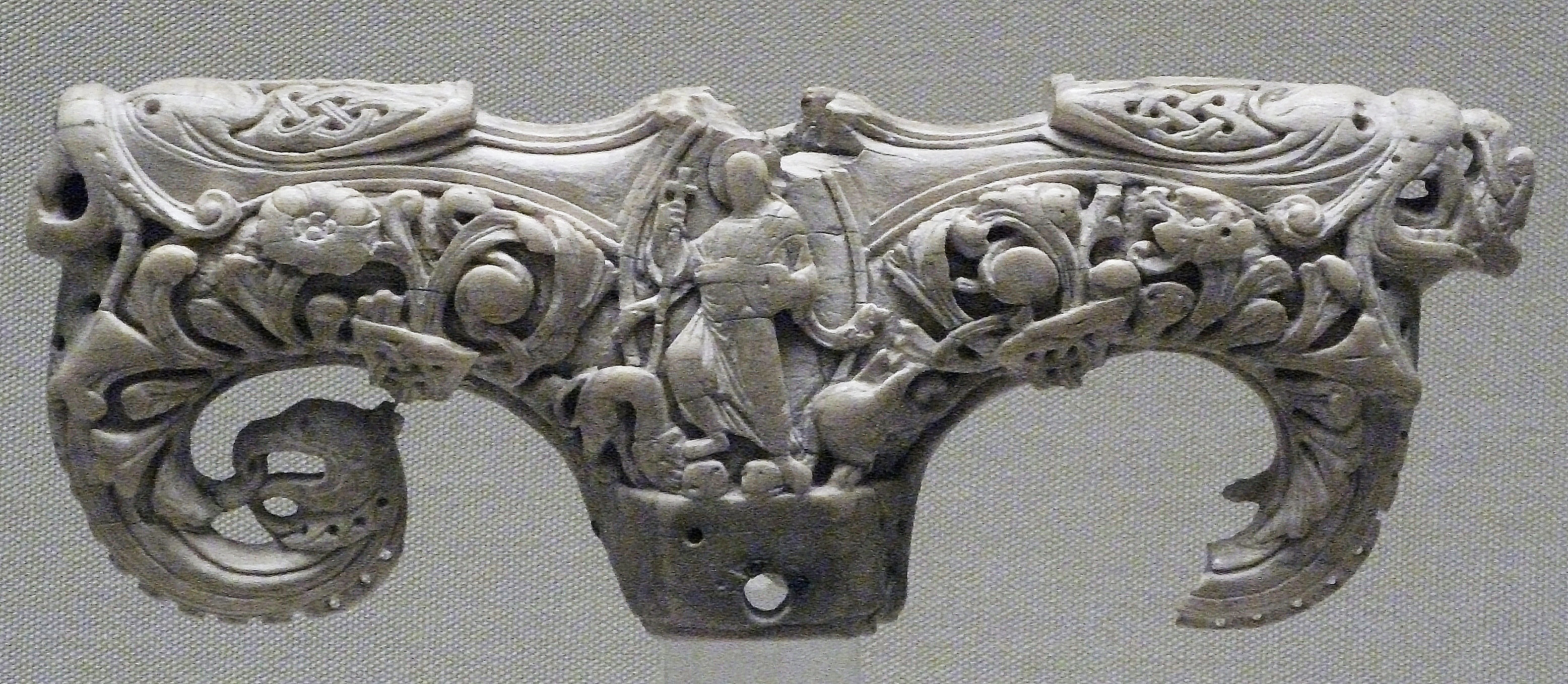 Anglo-Saxon ivory head of a tau cross, with "Christ treading on the beasts", early 11th century, British Museum. BM page